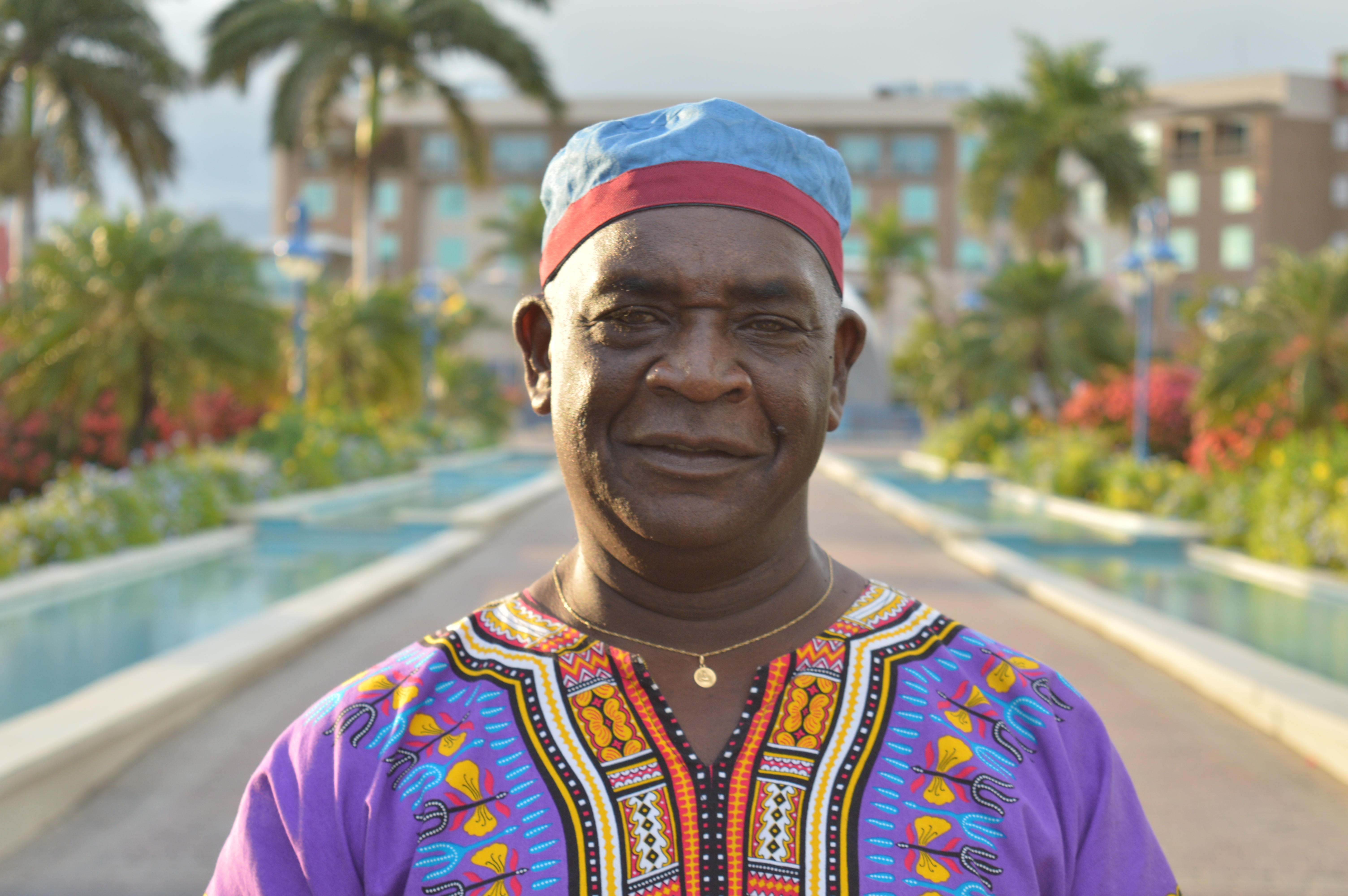 Picture of Accompong Maroon Colonel Ferron Williams